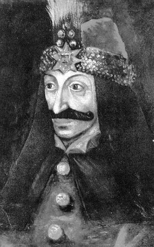 Vlad Ţepeş, the Impaler, Prince of Wallachia (1456-1462) (died 1477)